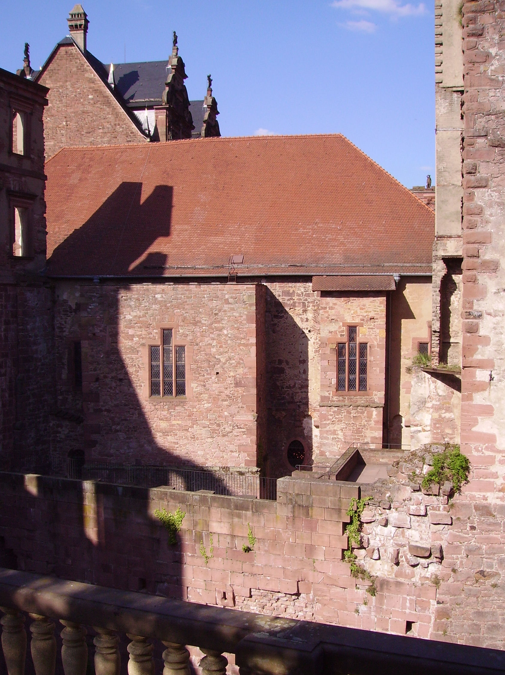 part of Heidelberg castle (Heidelberger Schloss)